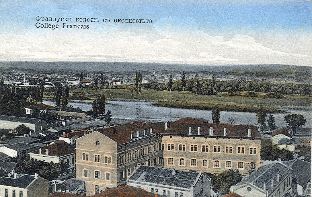 Postcard, undated ( ca.1916 ). Title: "College Francaise"